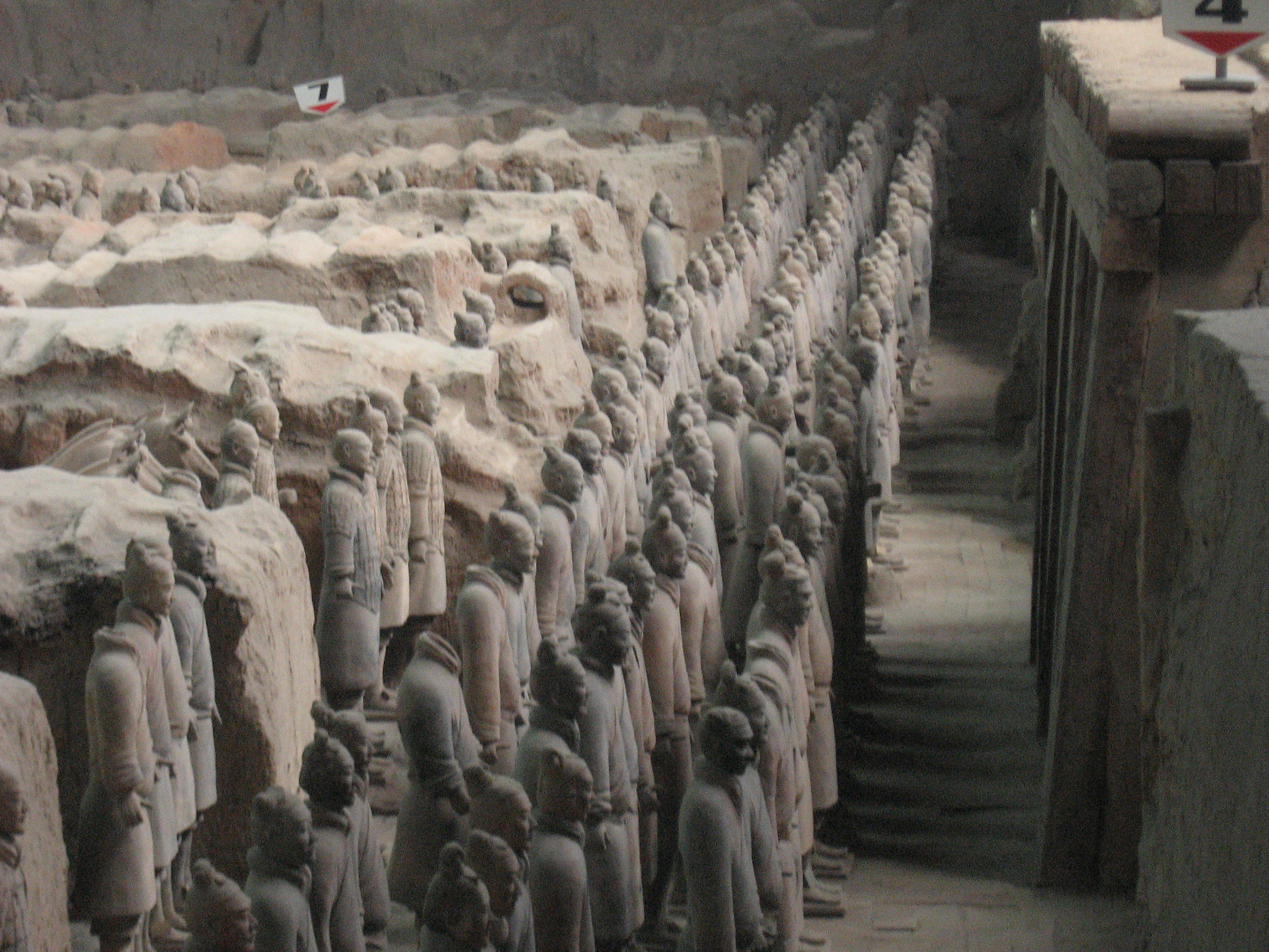 Terracotta Army China